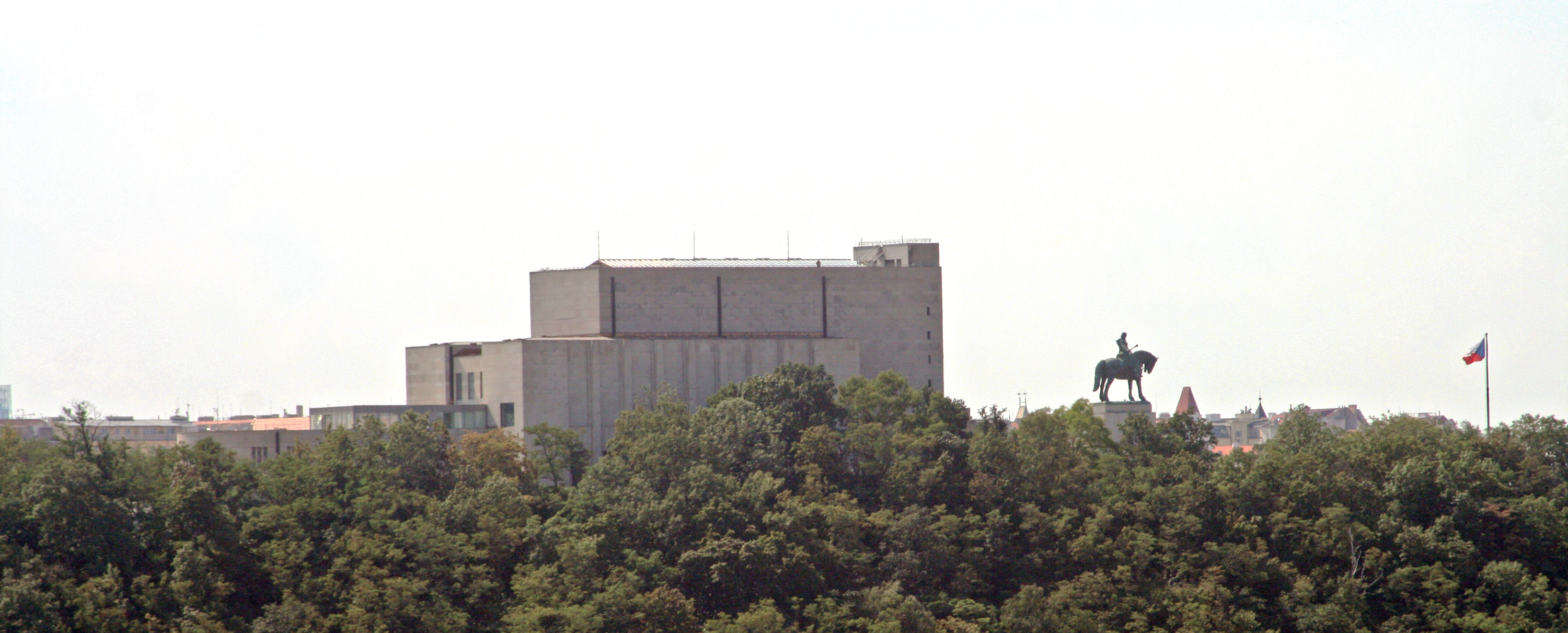 View on Vítkov Monument from top of Lighthouse Vltava Waterfront Towers, Prague, Czech Republic